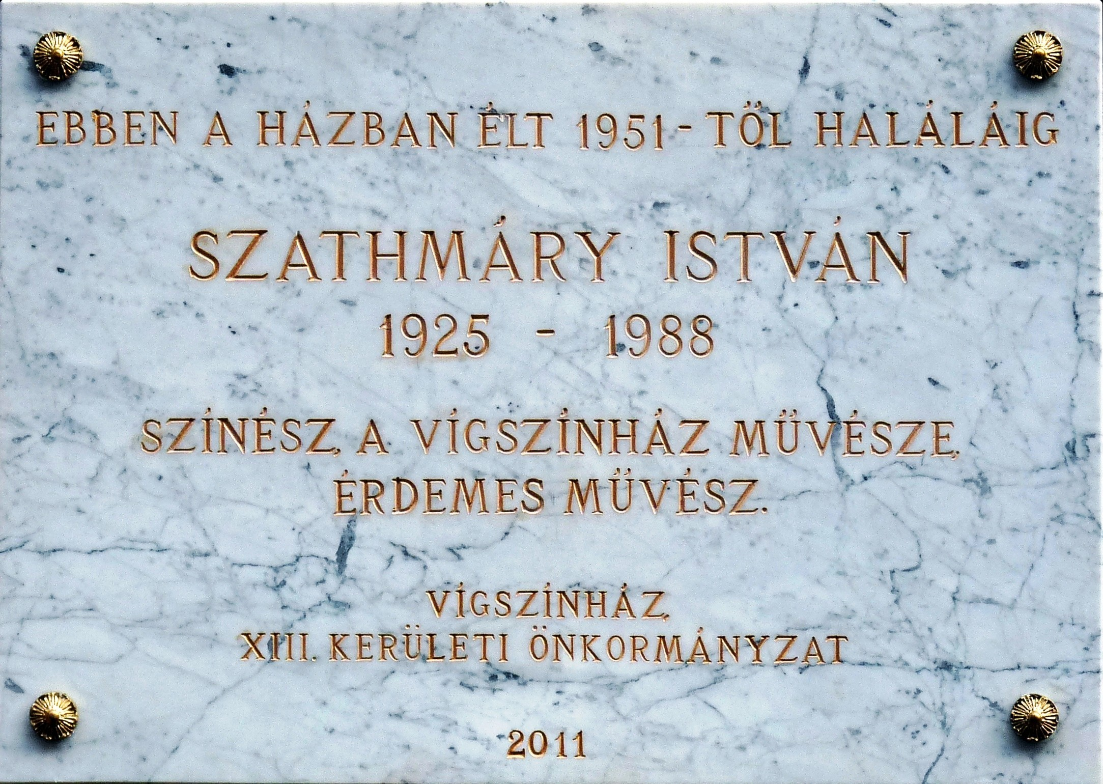 Commemorative plaque to Mr. István Szatmári (sometimes: Szathmáry) (1925–1988) Hungarian actor. It is affixed to the house where he lived from 1951 until his death. It was unveiled on October 20, 2011. (Budapest, District XIII, Radnóti Miklós Street Nr 19/b).